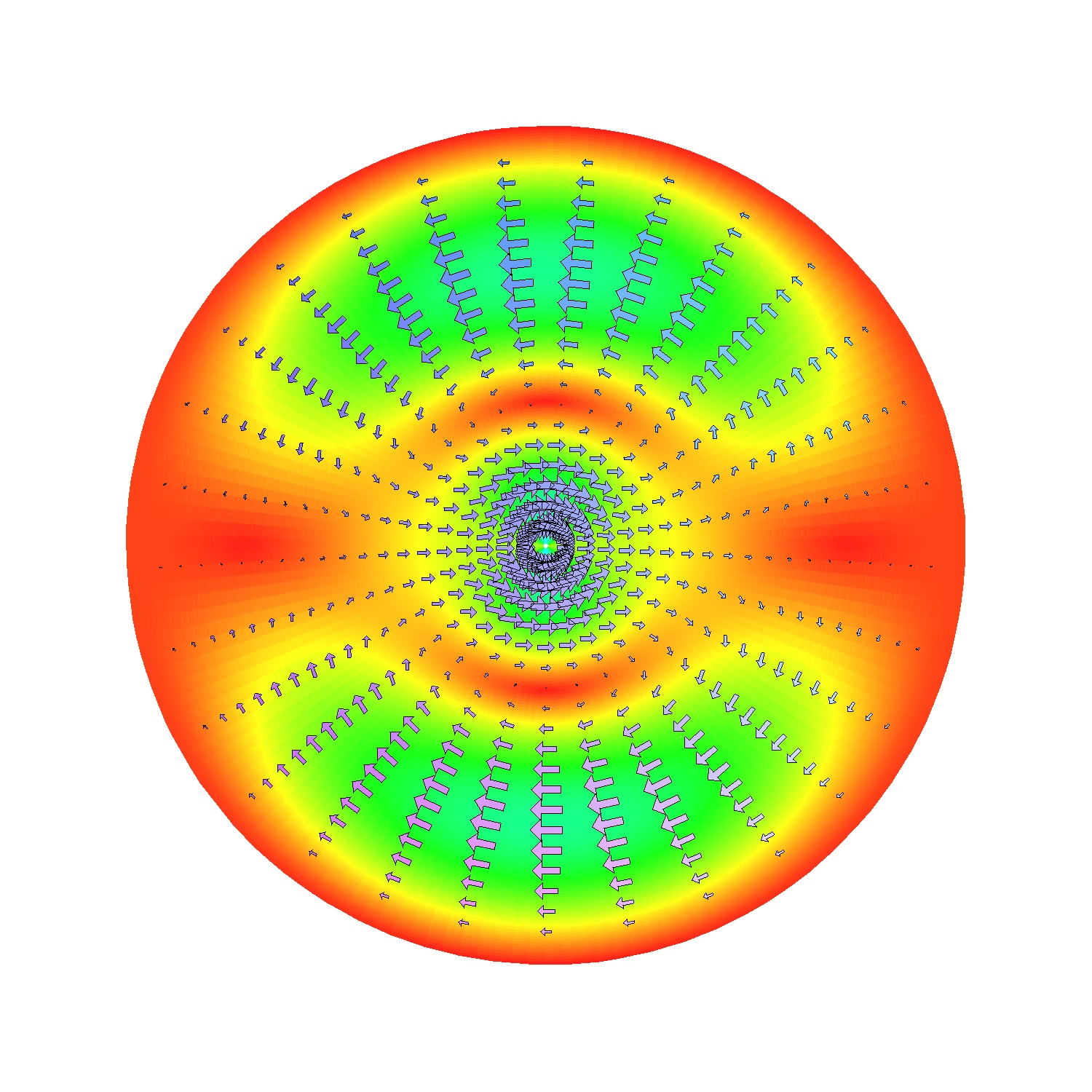 Plot of E and H fields on the TEnl mode defined by n and l.